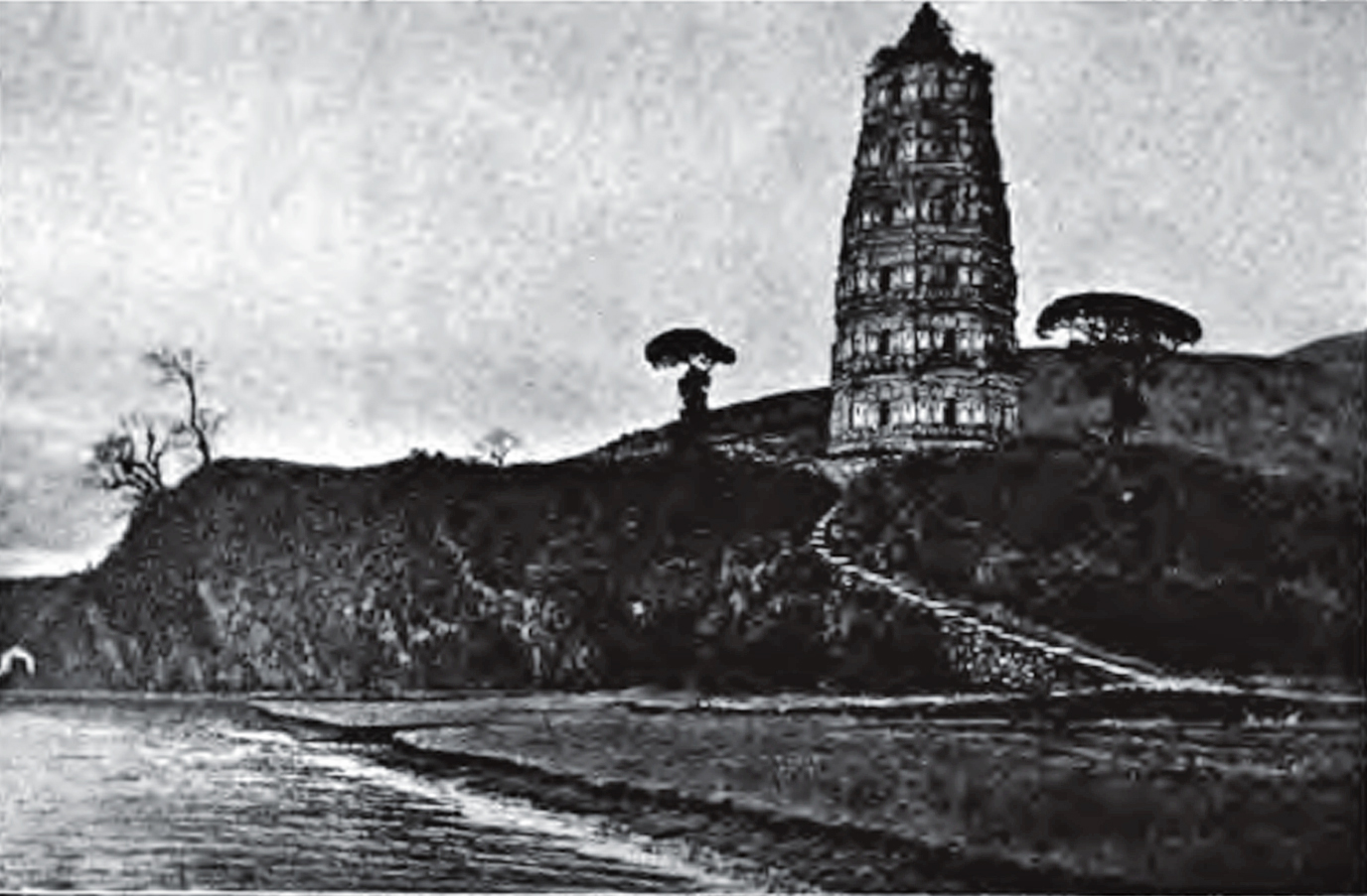 From: China Old and New; Arthur E. Moule; Seely and Co.; London; 1891